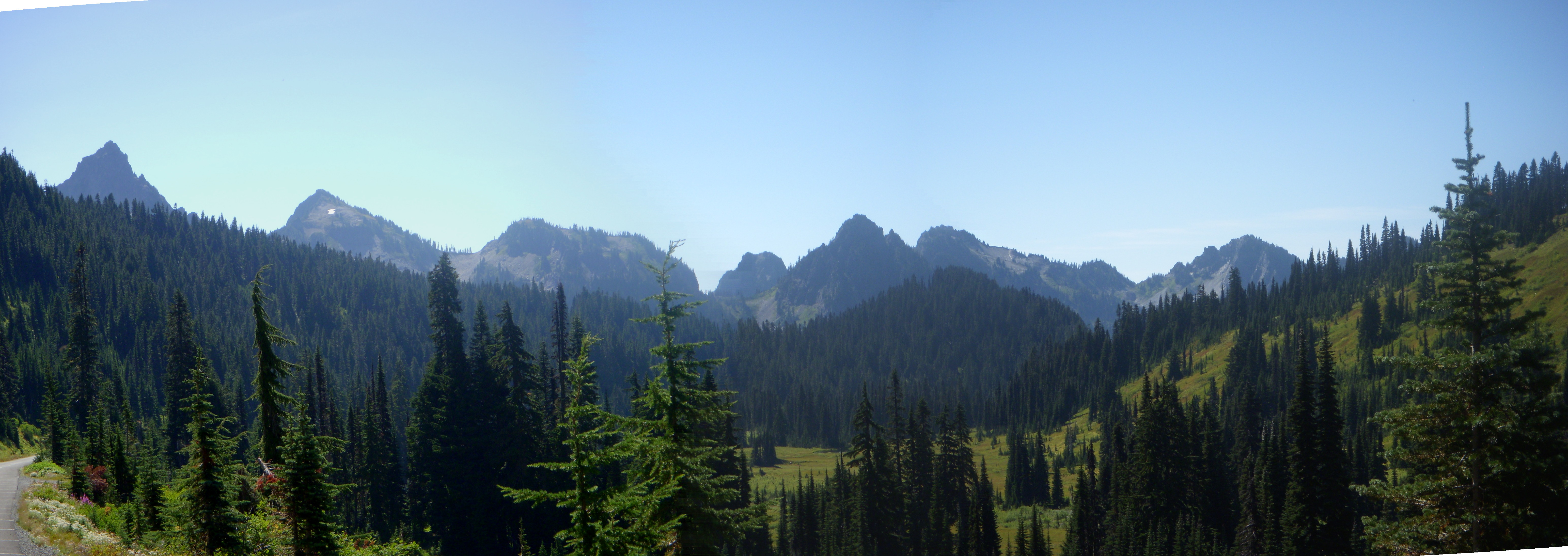 Tatoosh Range, Near Paradise, in Mt Rainer National Forest, Washington, United States; panorama of three shots